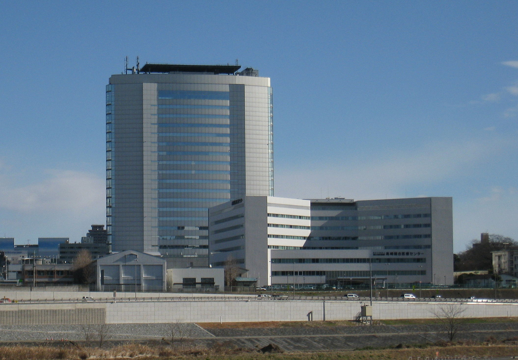 National Hospital Organization Takasaki General Medical Center